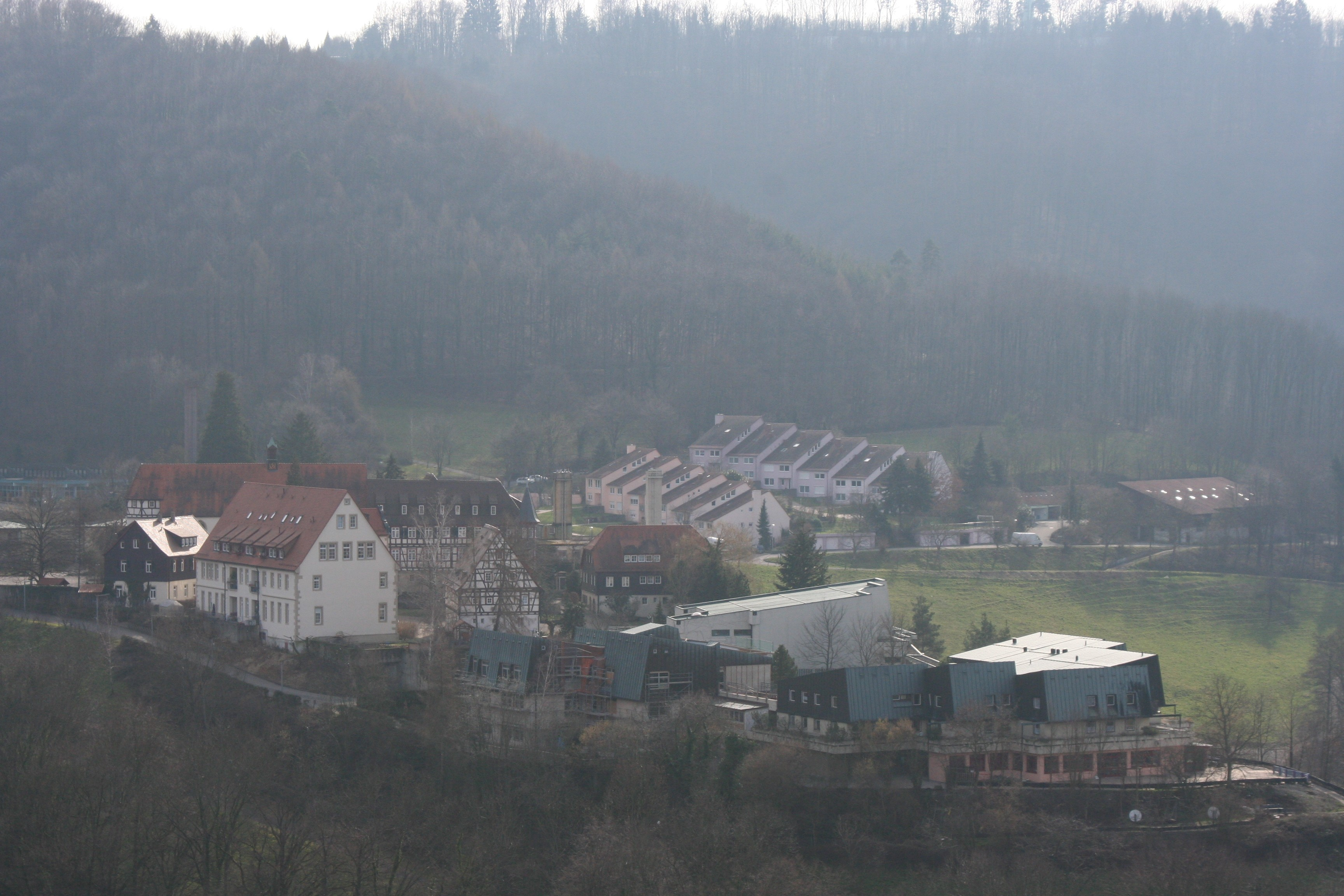 The former Cistercian nunnery in Löwenstein-Lichtenstern